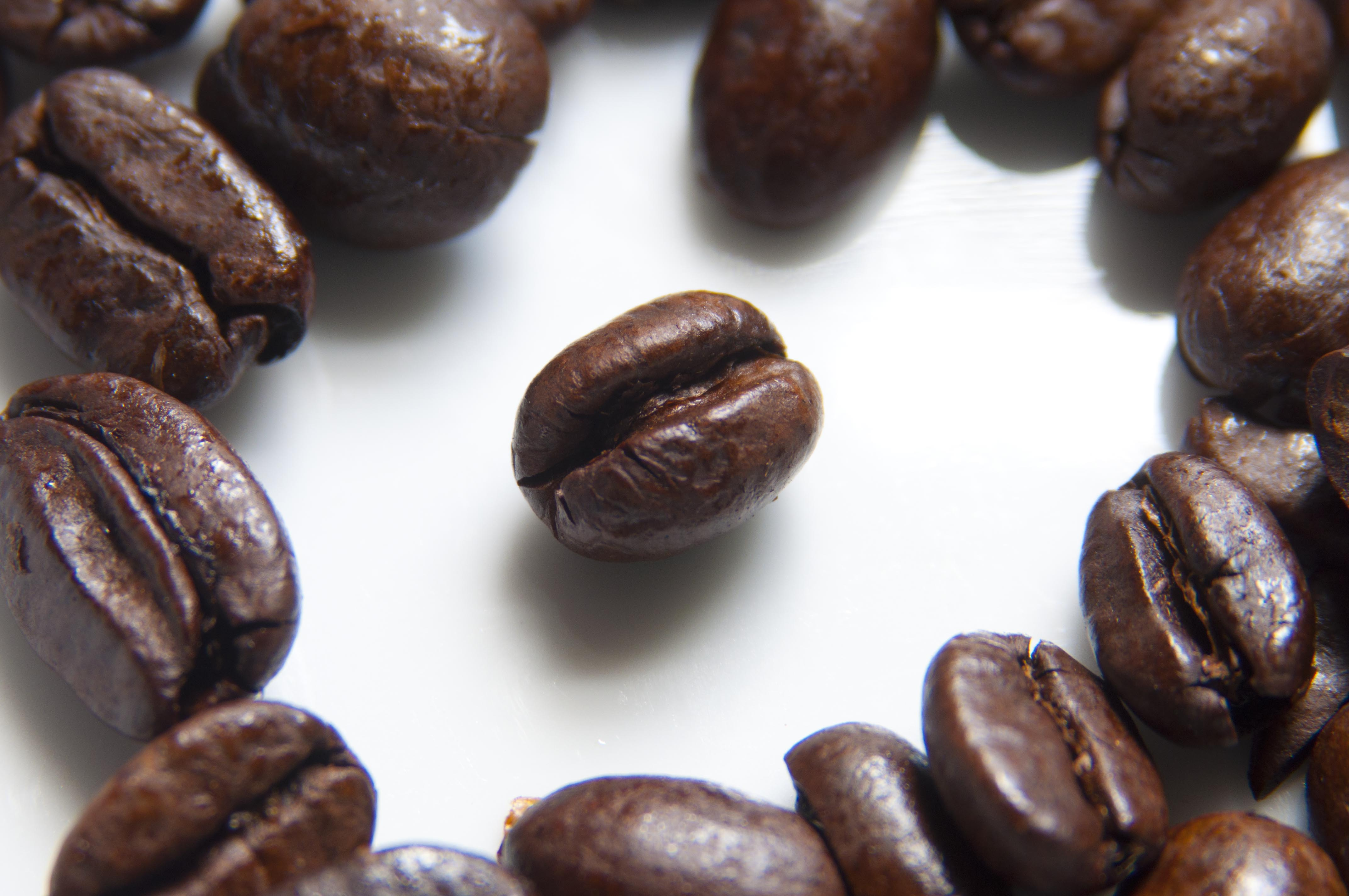 Roasted coffee beans photographed using a macro technique.